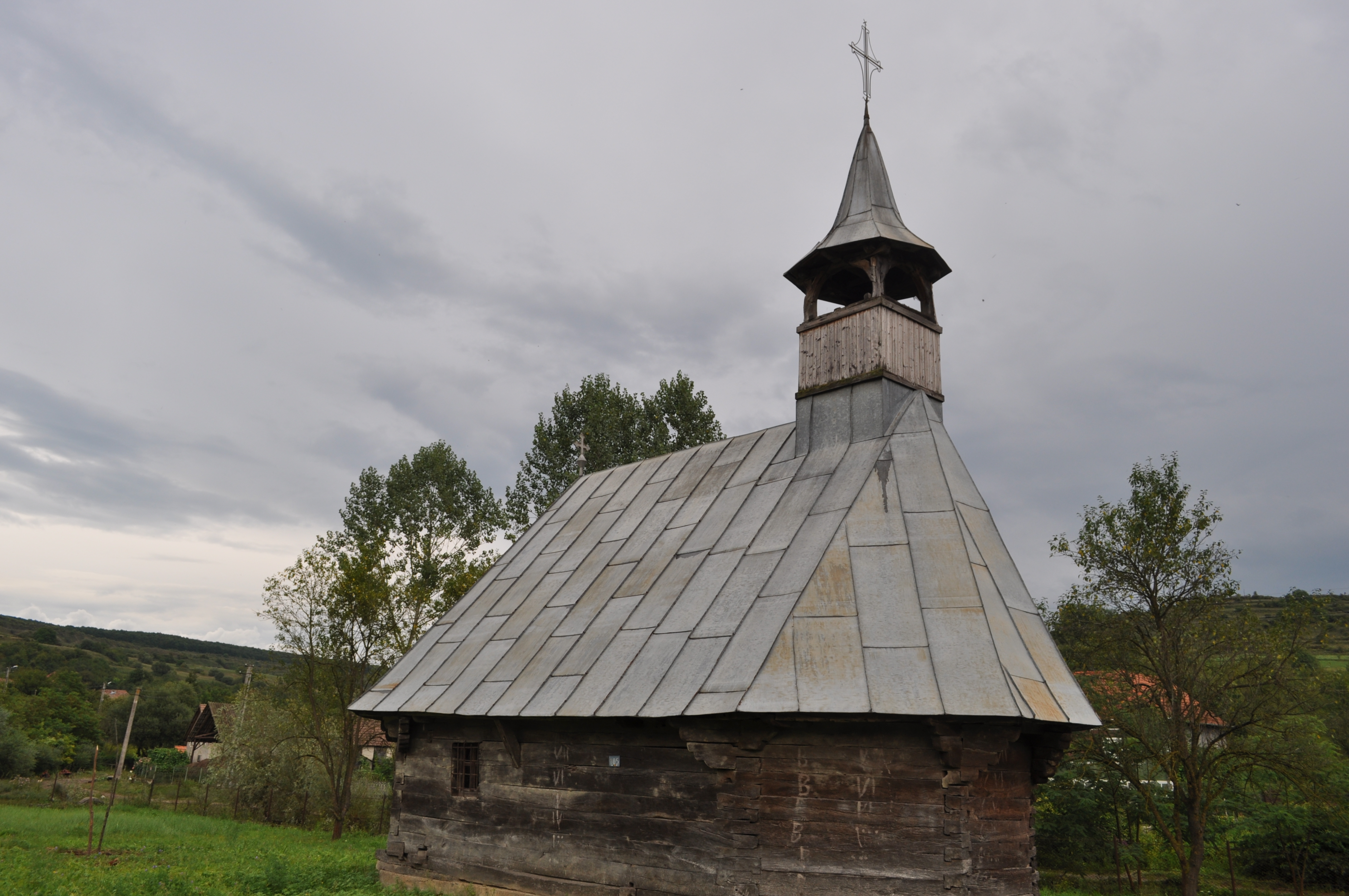 Wooden church in Strugureni, Bistrița-Năsăud countyRomână: Biserica de lemn din Strugureni